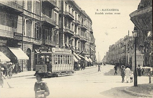 Alexandria Ramleh Station neighborhood in 1903.